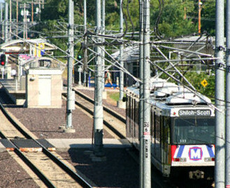 An eastbound Red Line train approaches Belleville